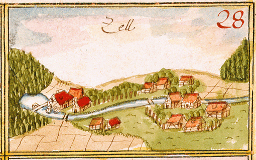 View of Zell, Börtlingen, from the forest register books created by Andreas Kieser